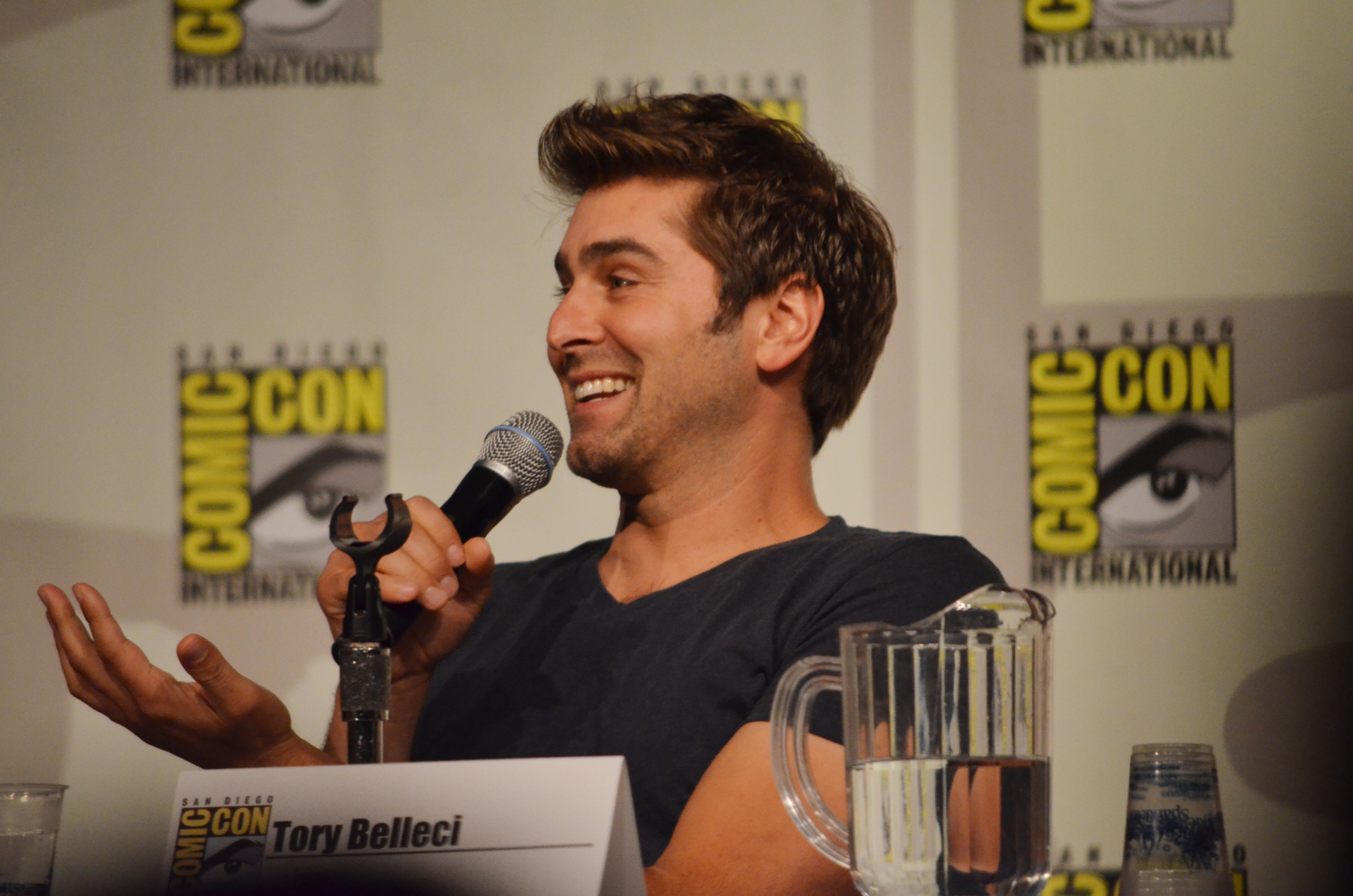 Tory Belleci